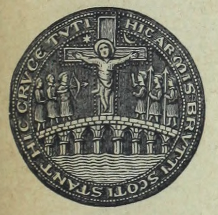 Stirling motto